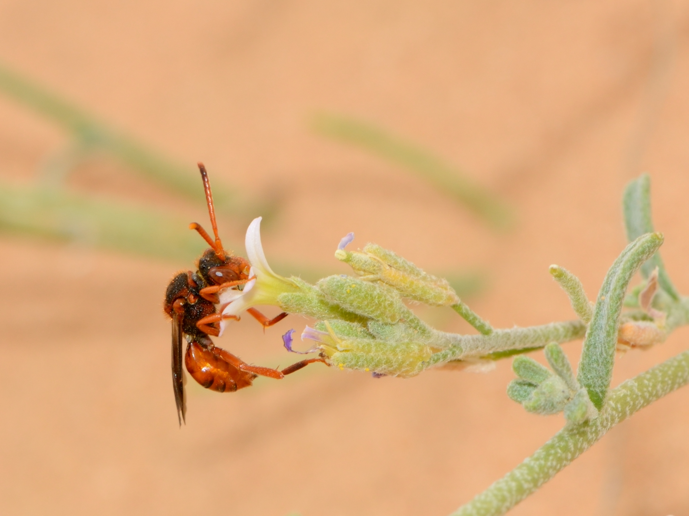 Female cuckoo bee (Nomada fenestrata rufopleurae Schwarz, det. Max Schwarz 2013.) nectar foraging on Eremobium aegyptiacum, Holot Mash'abbim, Northern Negev, Israel, February 14, 2012.